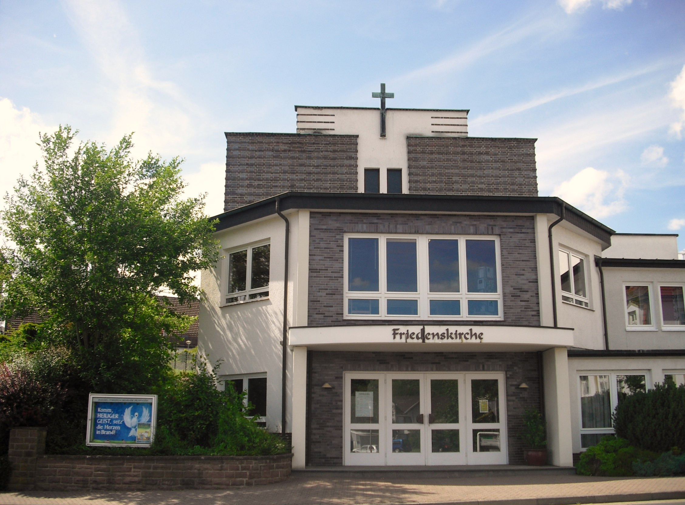 Friedenskirche, baptist church Uslar (Germany)